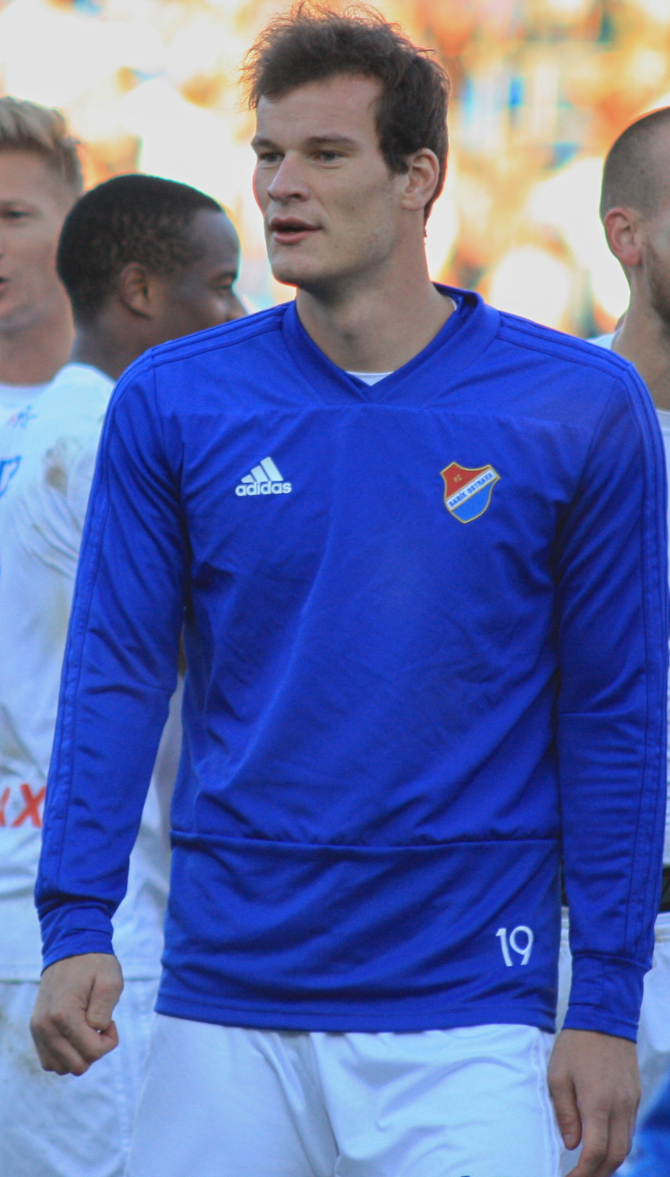 Jakub Šašinka At Czech First League (Fortuna Liga) match FC Baník Ostrava-SK Slavia Praha played on 30. 9. 2018